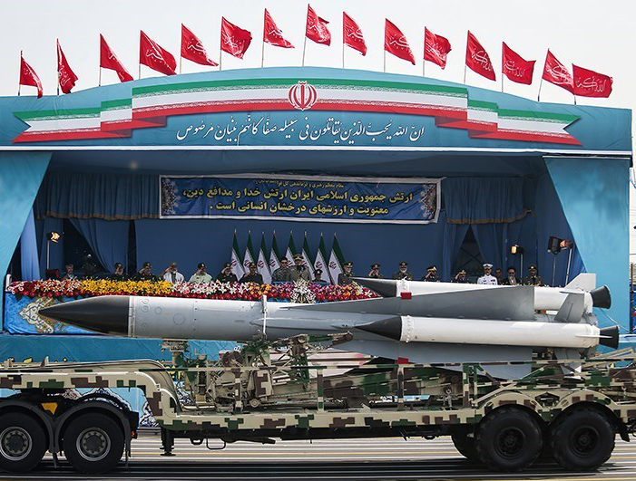 Iranian S200 Missile System